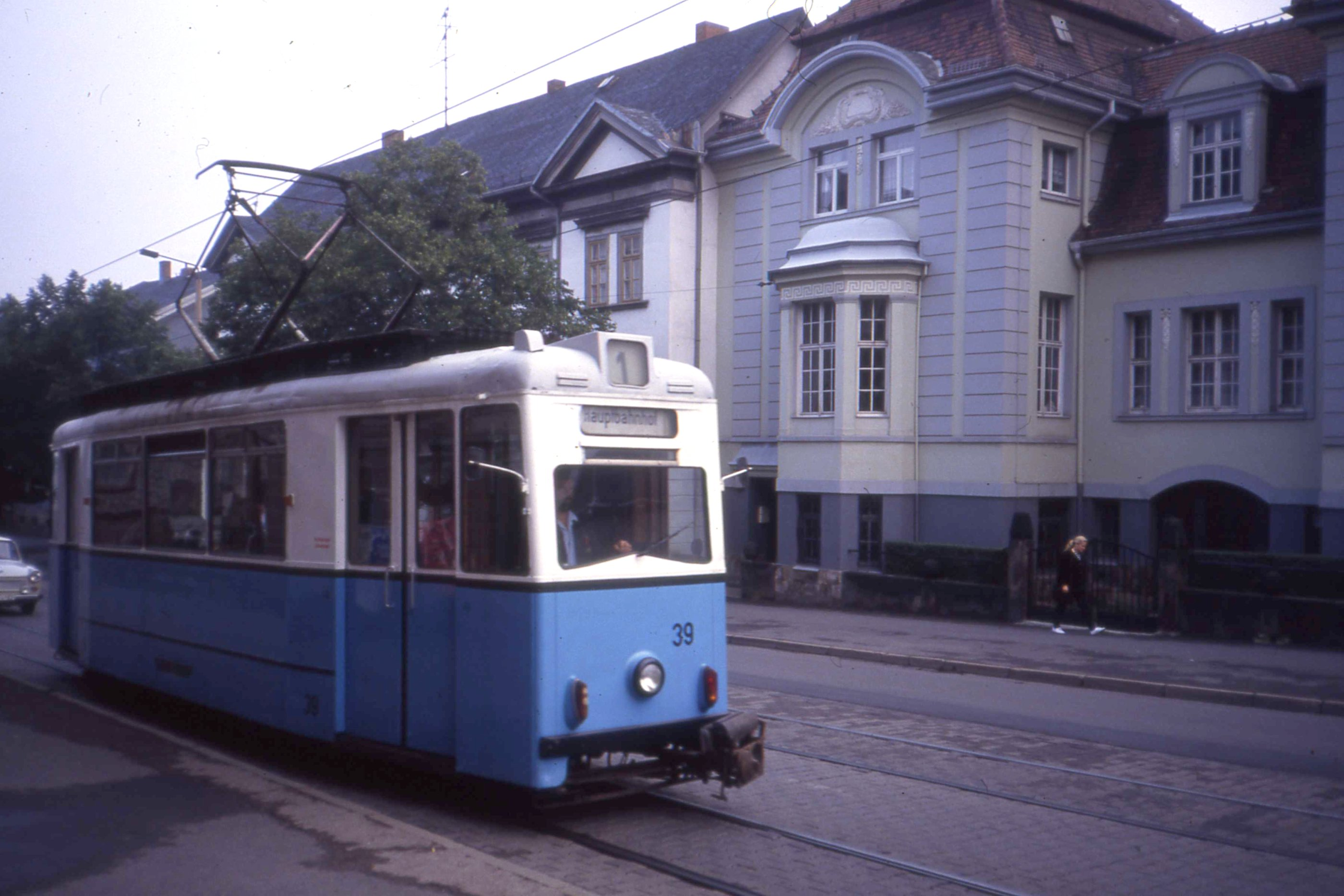 Double-ended LOWAstyle Gotha ET55 tram nr 39 was working the main route 1 south along Bahnhofstrasse to the Hauptbahnhof. Normally this route was operated by articulated Tatra KT4D or Gotha GT trams. Two years previously it was still wearing the cream and red livery which used to be standard in this undertaking. Subsequently yellow denoted the Waldbahn and Blue the town services. today 39 is retained in the historic wagenpark in Gotha This type of tram from VEB Waggonbau Gotha was known as a precursor, being the ET54 or 55. A list of all those made and their town of service is found on this informative page although they are not to be found on the pages of towns in Germany which used Gotha made trams. Not sure why. perhaps because , as the site says, there were four sites of tram production in the DDR in 1949, including Werdau and Ammendorf, under the VVB (Vereinigung von Volkseigener Betriebe) LOWA (Lokomotiv- und Wagen and only in 1954 did Gotha become the sole manufacturer of East German trams, of the same pattern as in the VVB LOWA days, as here on this ET55, redesignated from ET54.